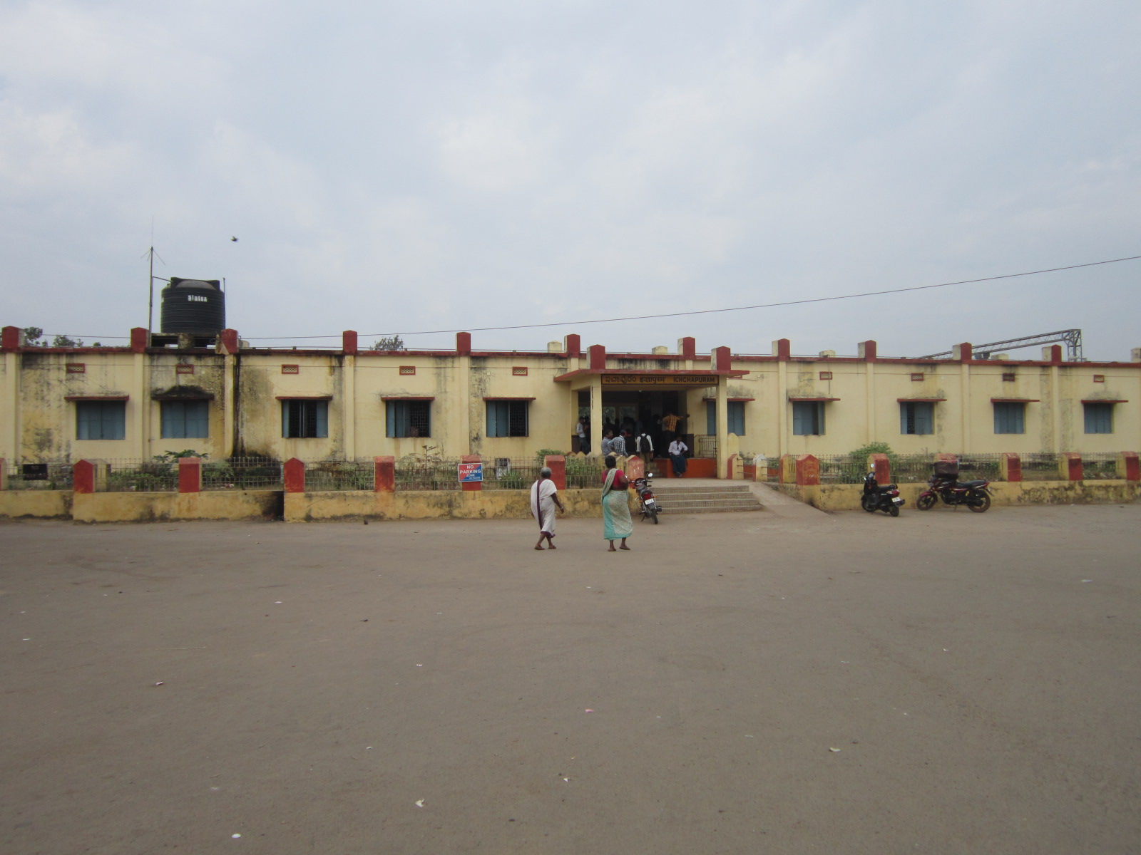 Railway station at itchapuram,Andhra pradesh,India